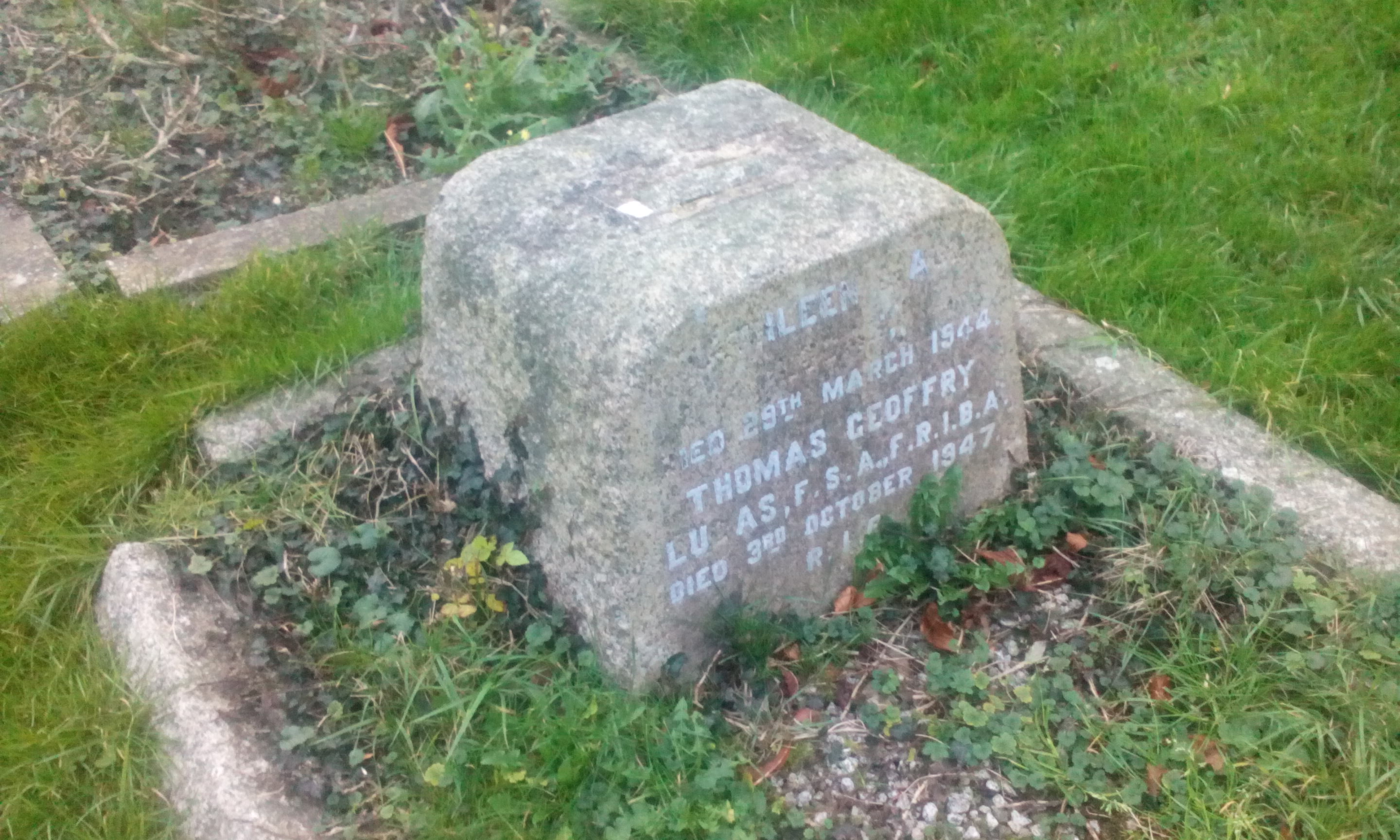 Tomb of Thomas Geoffry Lucas, churchyard of Old St Mary's Church, Walmer, Kent, UK